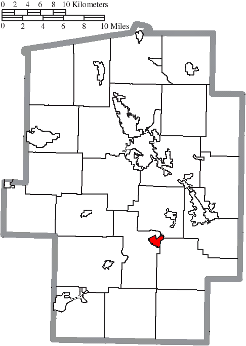 Map of the municipal and township boundaries of Tuscarawas County, Ohio, United States, as of the 2000 census, with the location of the village of Gnadenhutten highlighted. Township borders are shown only in unincorporated areas in order to differentiate incorporated and unincorporated areas more clearly.